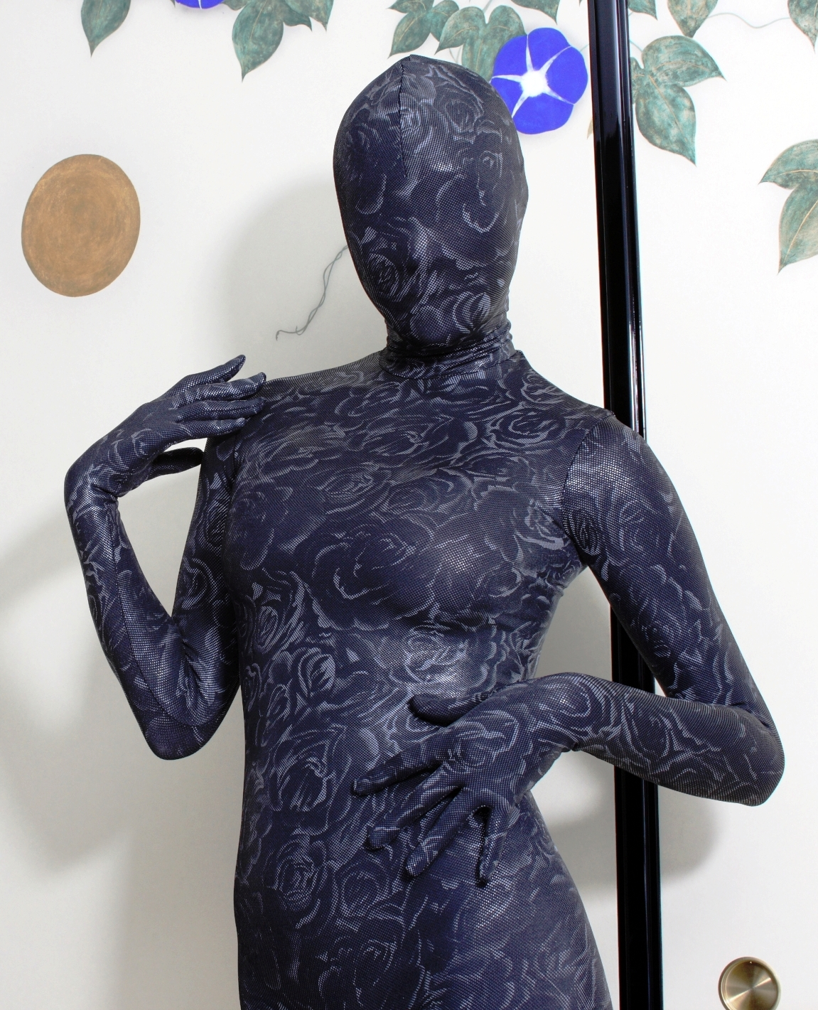 Black flower patterned Zentai & Morning glory Picture